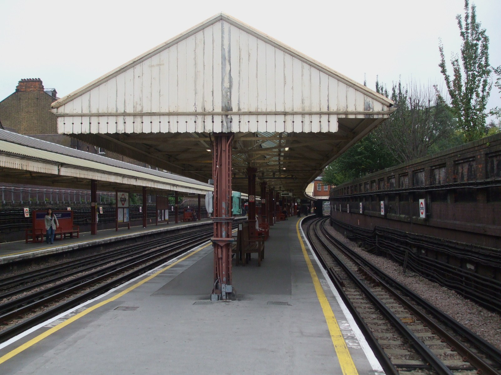 Barons Court tube station westbound District platform looking east. Piccadilly line platforms to the left.